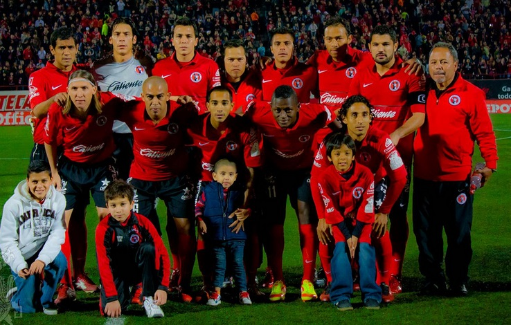 Club Tijuana